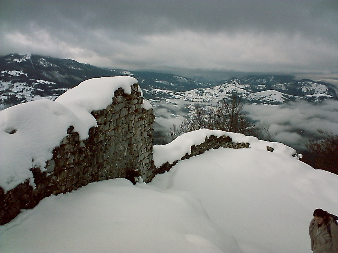 Mirabat Castle (Ariège, France). Mirabat in Occitan language means to "look down".